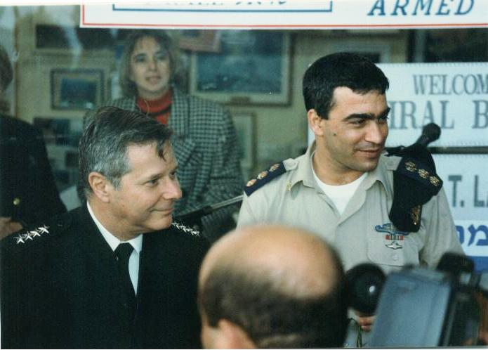 Admiral Boorda CNO USN visit Israeli exposition, Escorted by Capt Meshita IN 1995